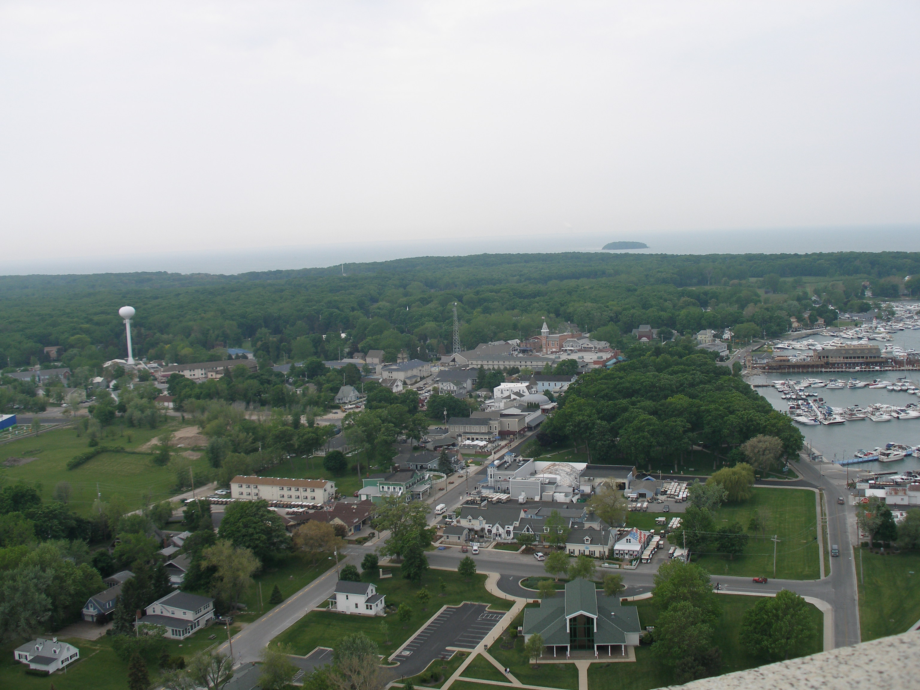 An aerial view of the downtown area of the village of Put-in-Bay, South Bass Island, Ohio from atop the Perry Monument. May 24th, 2009